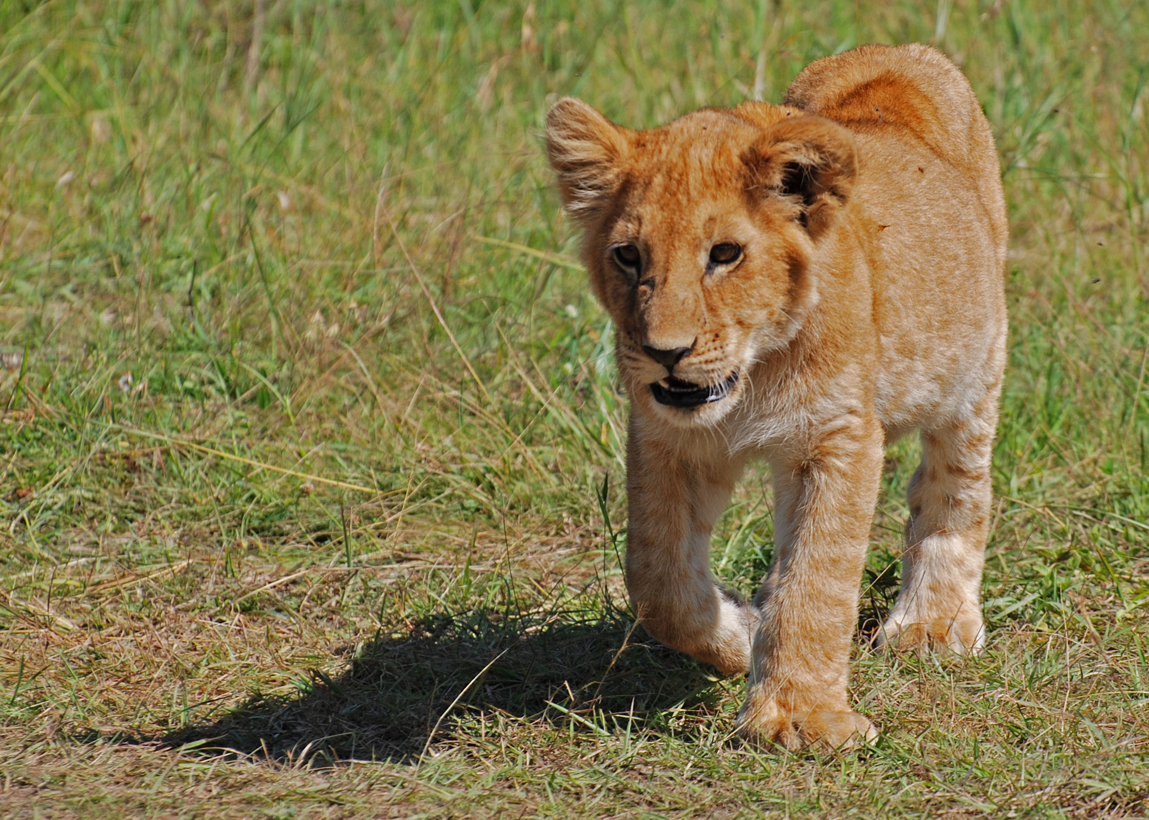 Panthera leo